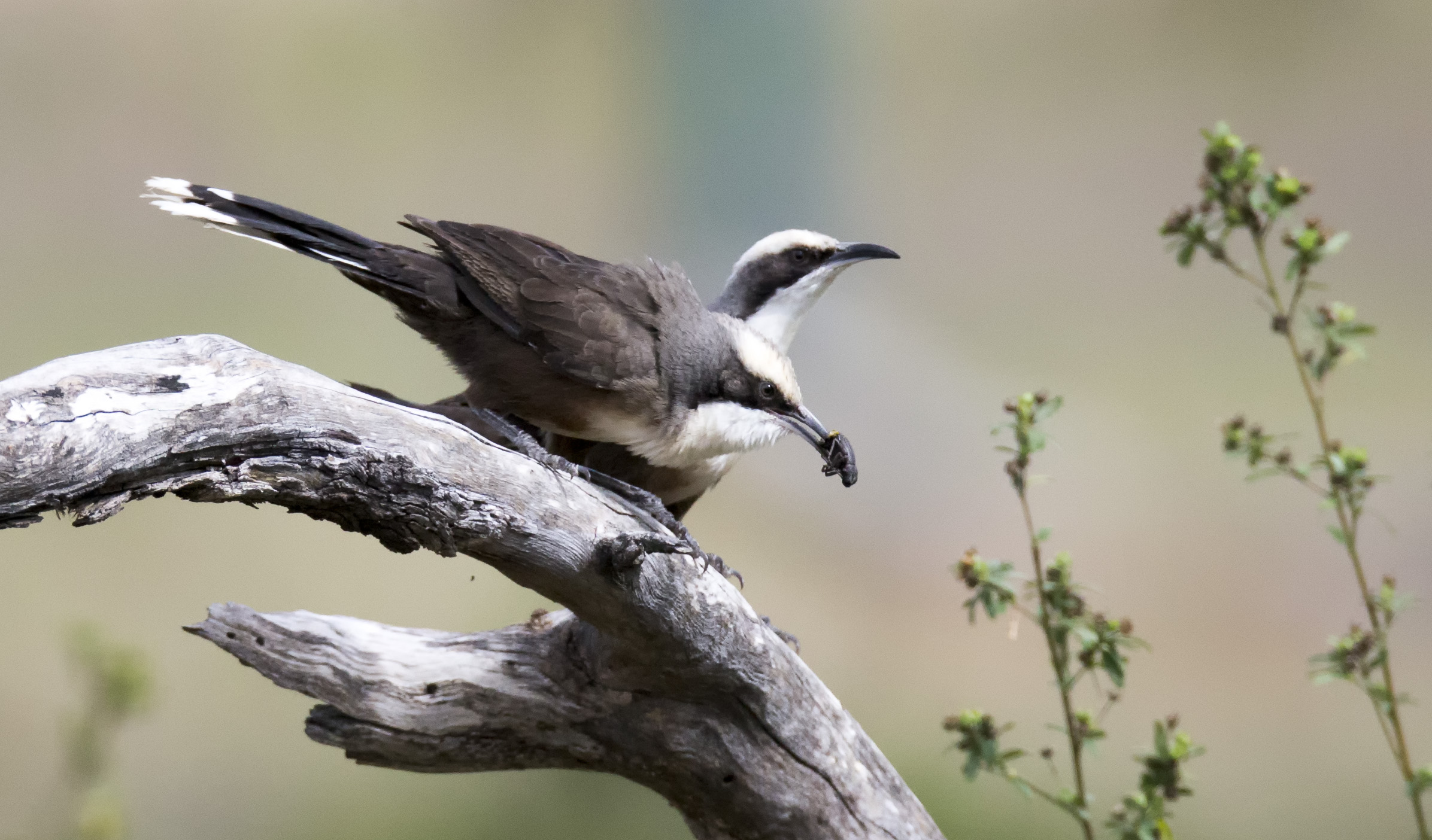 Babblers fighting over a bug. Near Dalby Qld